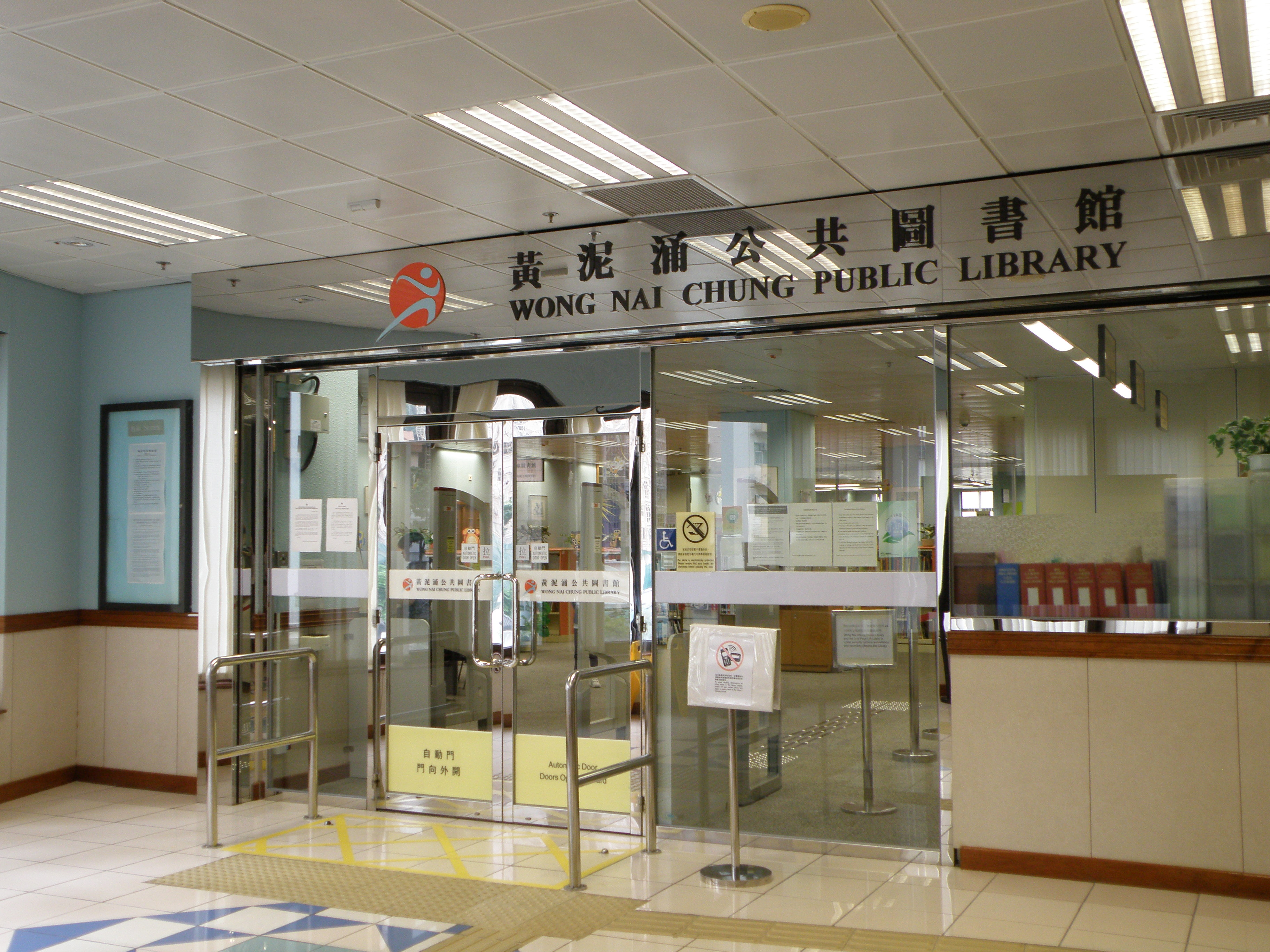 Wong Nai Chung Public Library in Happy Valley, Hong Kong.